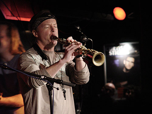 Bill Evans at A-Traine Berlin